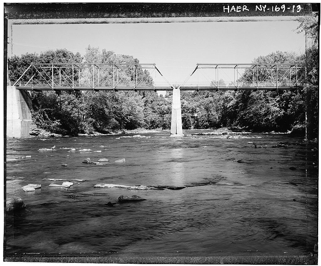 Upper Bridge, River Street, spanning AuSable River, Keeseville, Essex County, NY